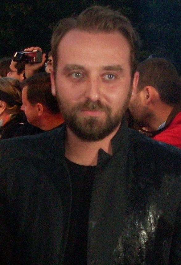 Wojciech Mecwaldowski - an actor from Poland.